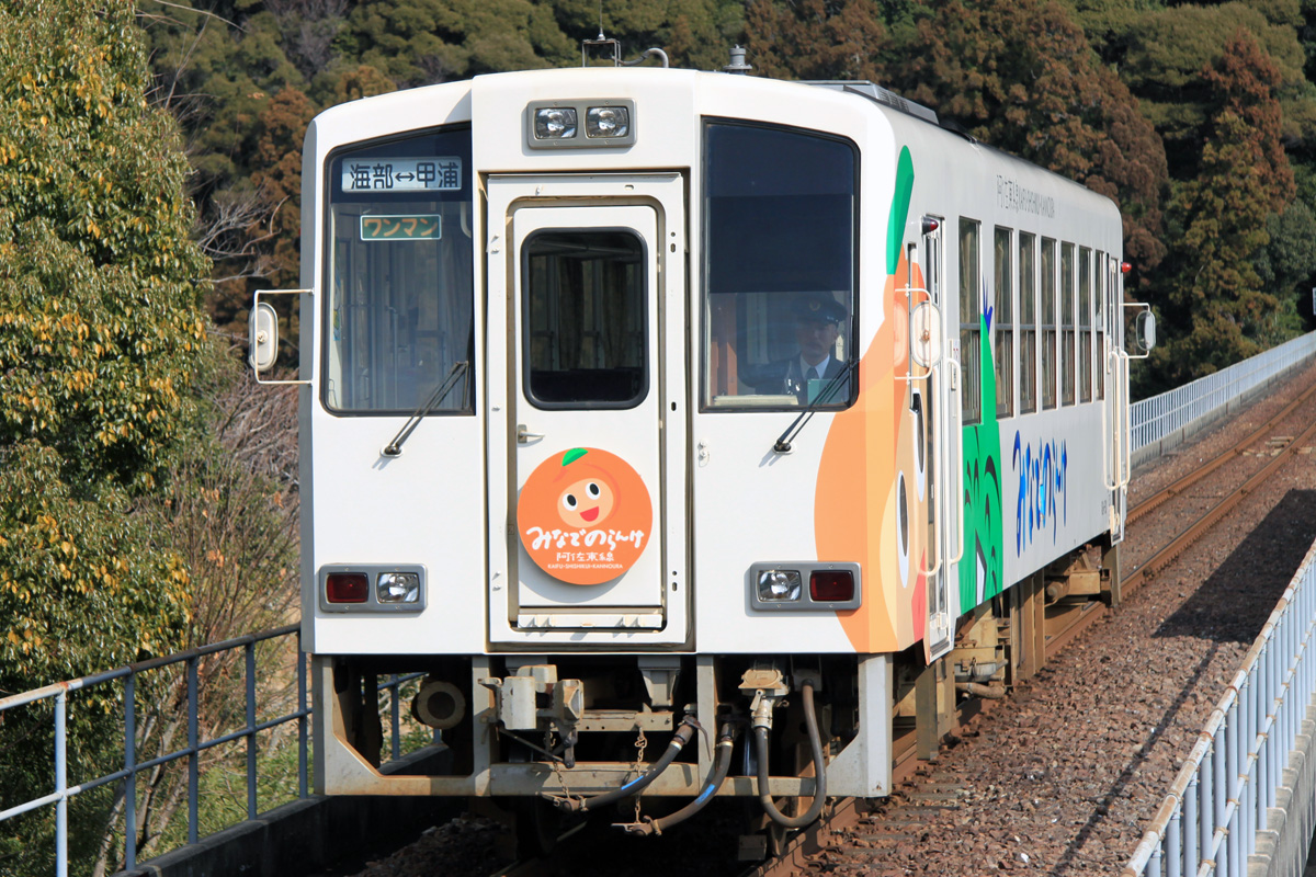 Asa Kaigan Railway ASA-301 DMU